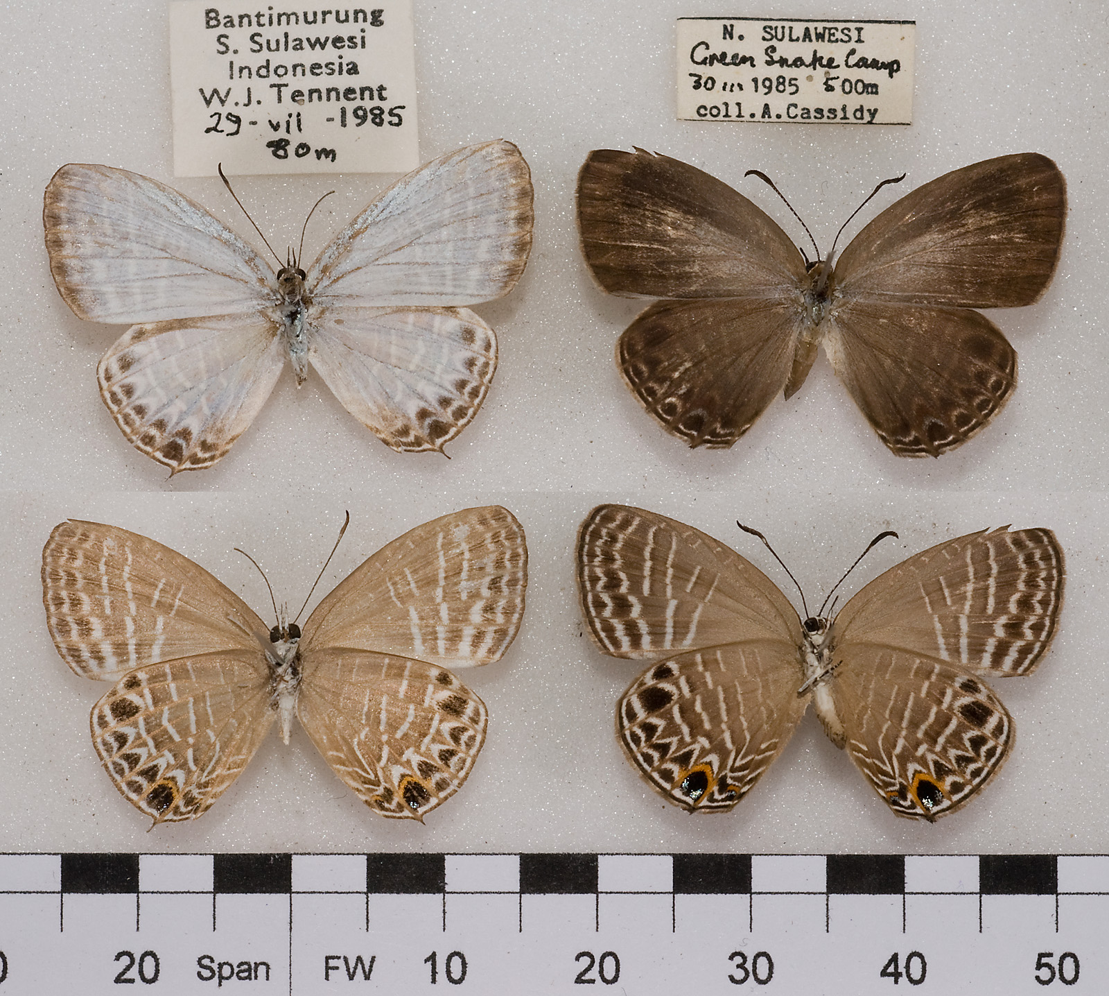 Jamides aratus lunata, male, female, set specimens, Sulawesi, Alan Cassidy photo.